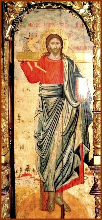 Christ Icon in Klisoura Monastery